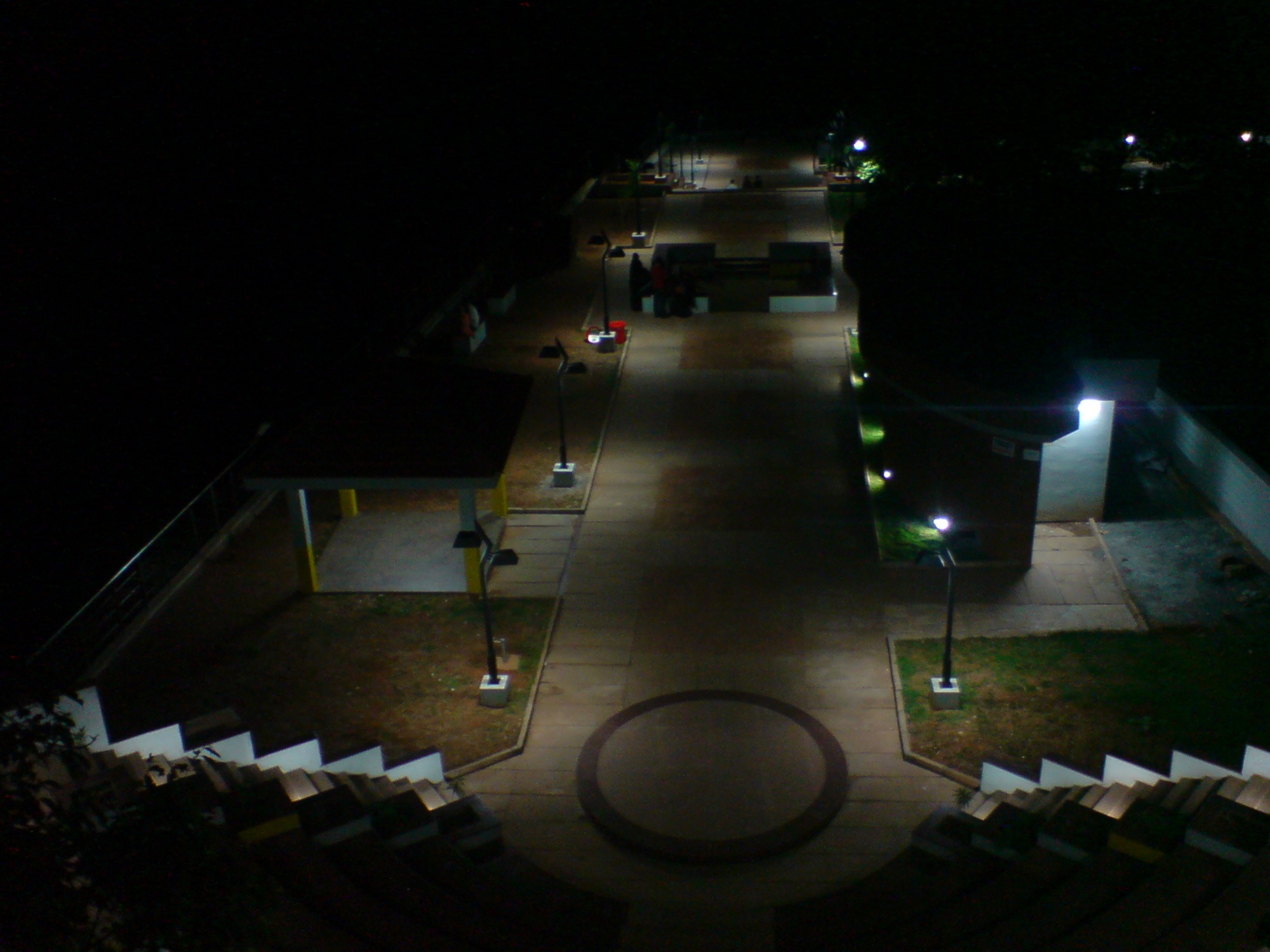 Over Burry's folly, a night vision.